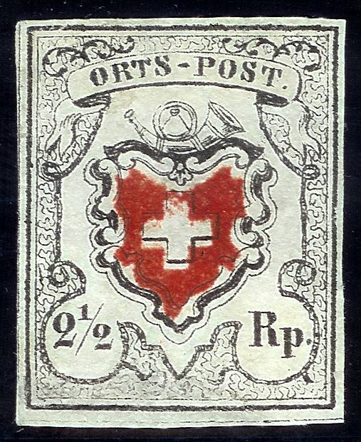 2.5 centimes local mail postage stamp of Switzerland, 1850, part of the first series of Swiss stamps.